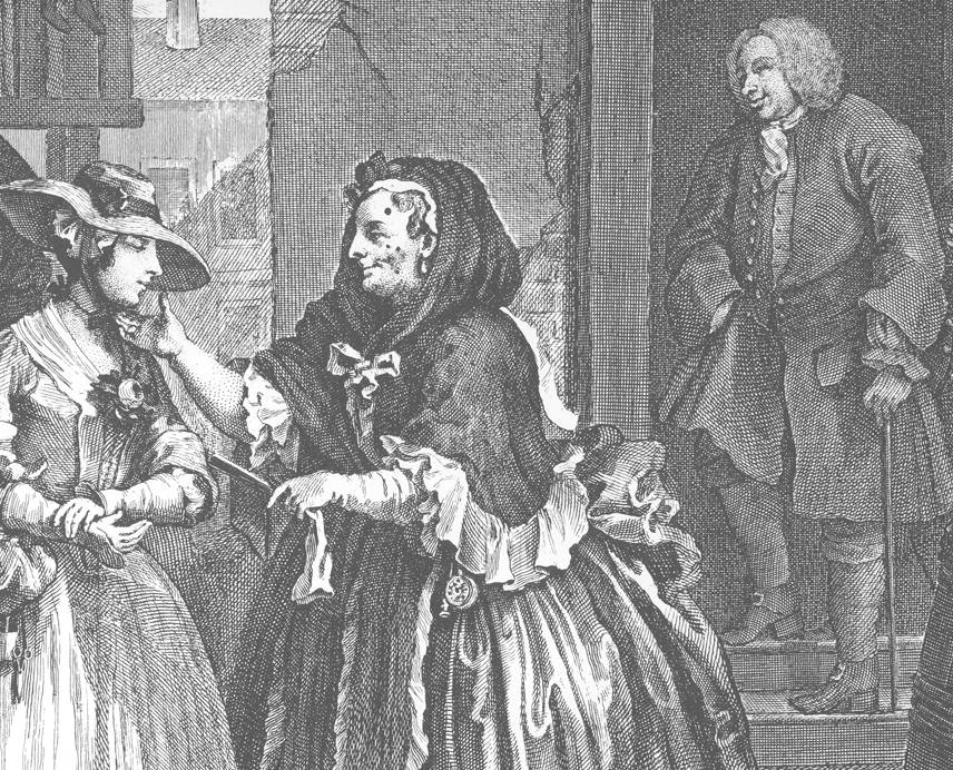 Original work by William Hogarth. Crop of Hogarth-Harlot-1.png.